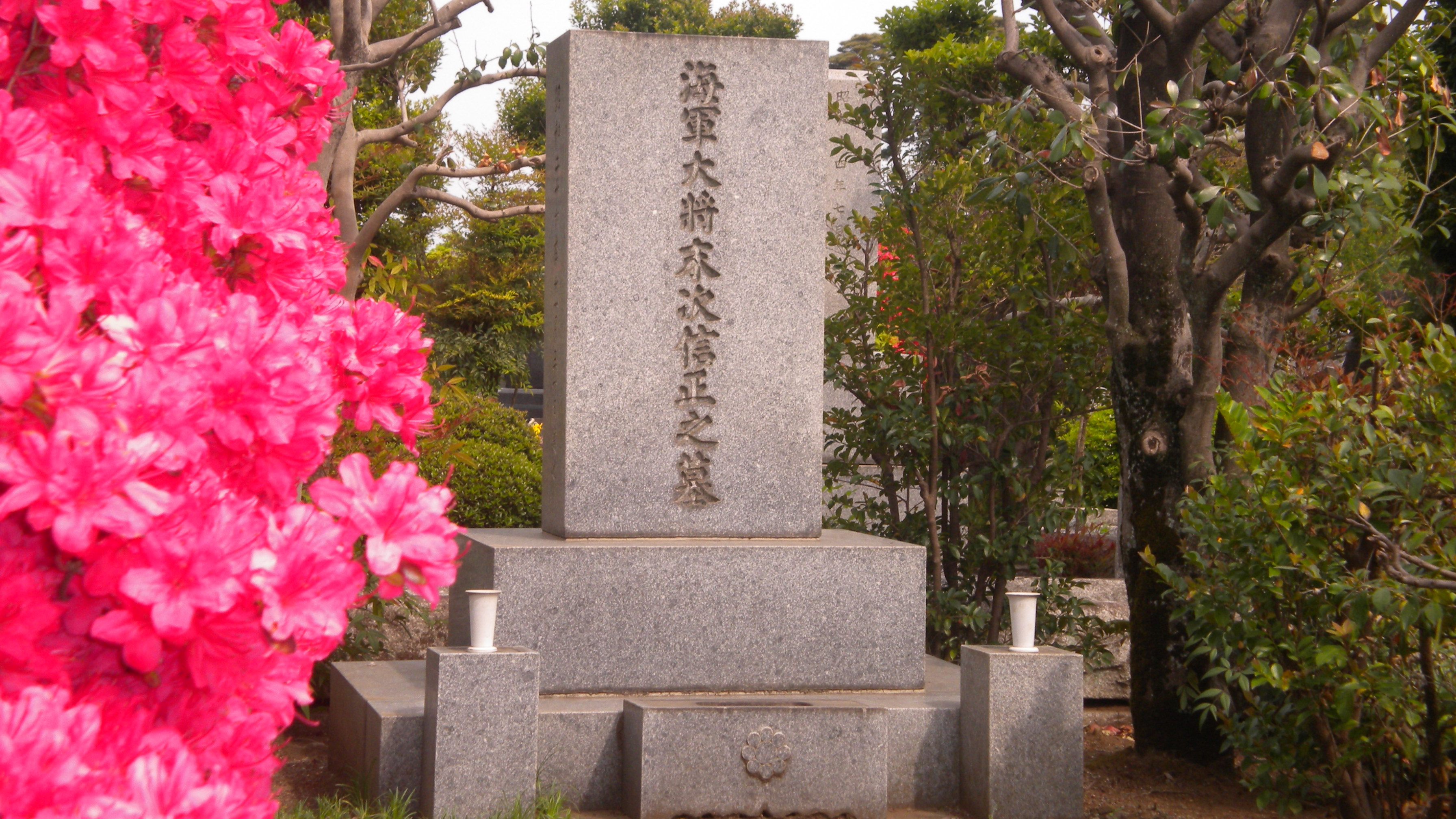 Grave of Suetsugu Nobumasa in Tama Reien